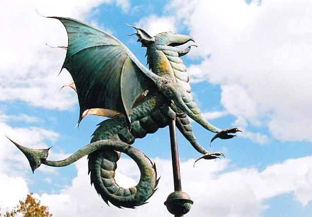 Wyvern dragon weathervane